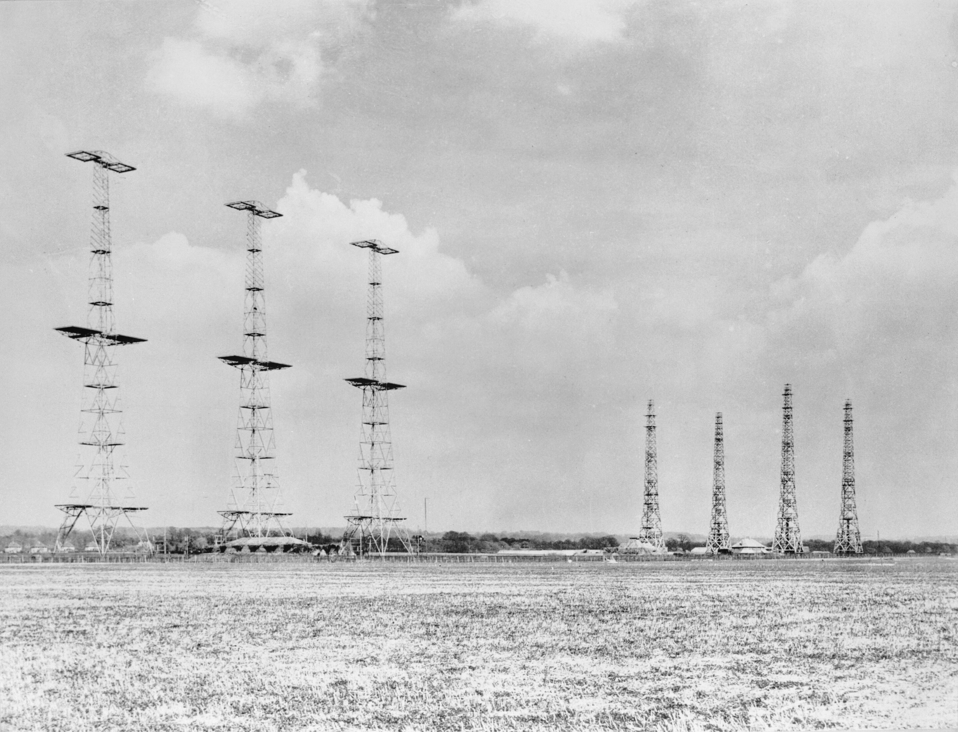 Chain Home radar installation at Poling, Sussex, 1945. Chain Home: AMES Type 1 CH East Coast radar installation at Poling, Sussex. On the left are three (originally four) in-line 360ft steel transmitter towers, between which the transmitter aerials were slung, with the heavily protected transmitter building in front. On the right are four 240ft wooden receiver towers placed in rhombic formation, with the receiver building in the middle.